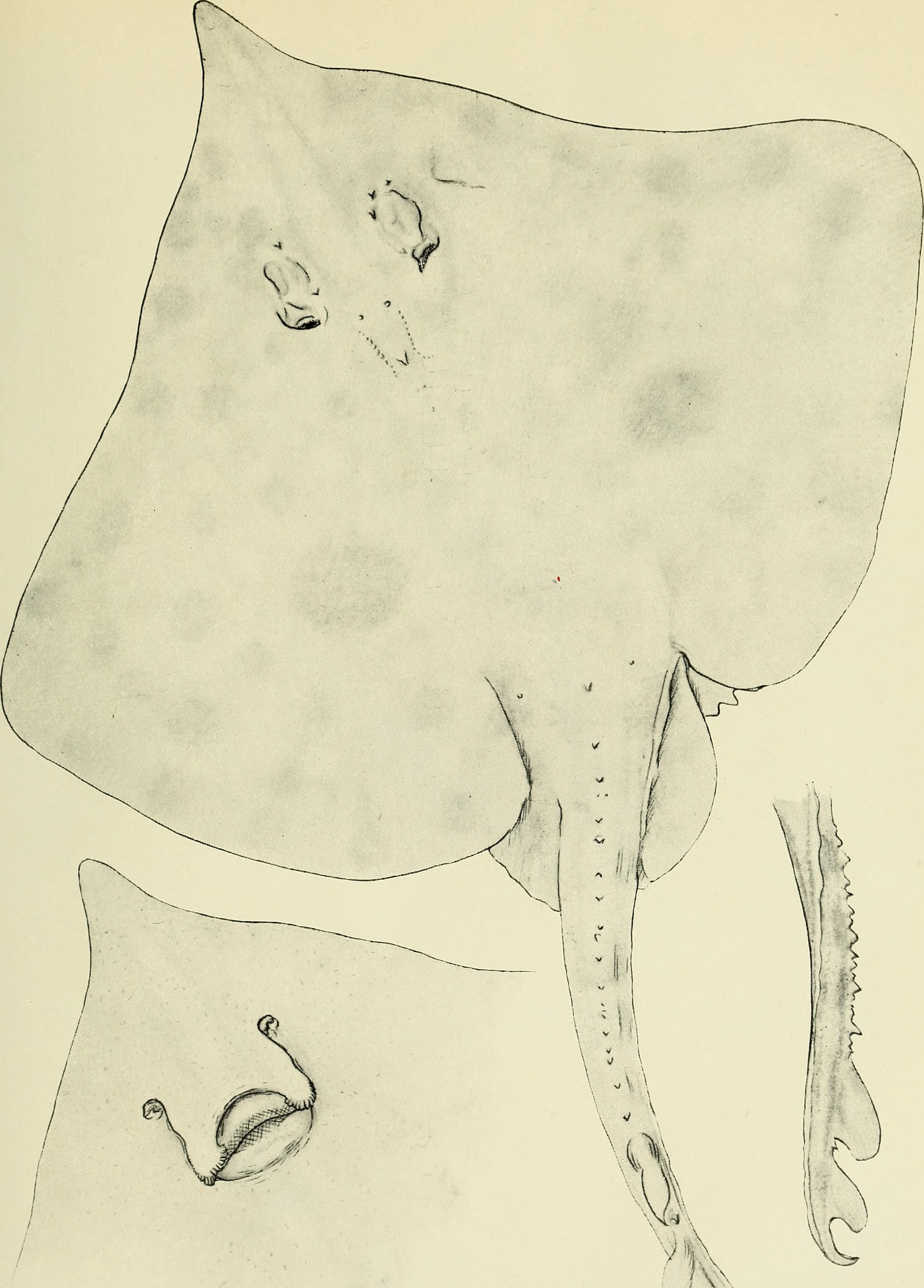 Title: The Australian zoologist Year: 1914 (1910s) Authors: Royal Zoological Society of New South Wales; Royal Zoological Society of New South Wales. Proceedings Subjects: Zoology; Zoology; Zoology Publisher: (Sydney, Royal Zoological Society of New South Wales) Text Appearing Before Image: The Australian Zoologist, Vol. ix. Plate xxi. Text Appearing After Image: ^ Zearaja nasuta (Miiller & Henle). A young specimen from the Portobello Marine Hatchery, New Zealand. (Austr. Mus., Regd. No. IA.7087.) .... Joyce Allan del.